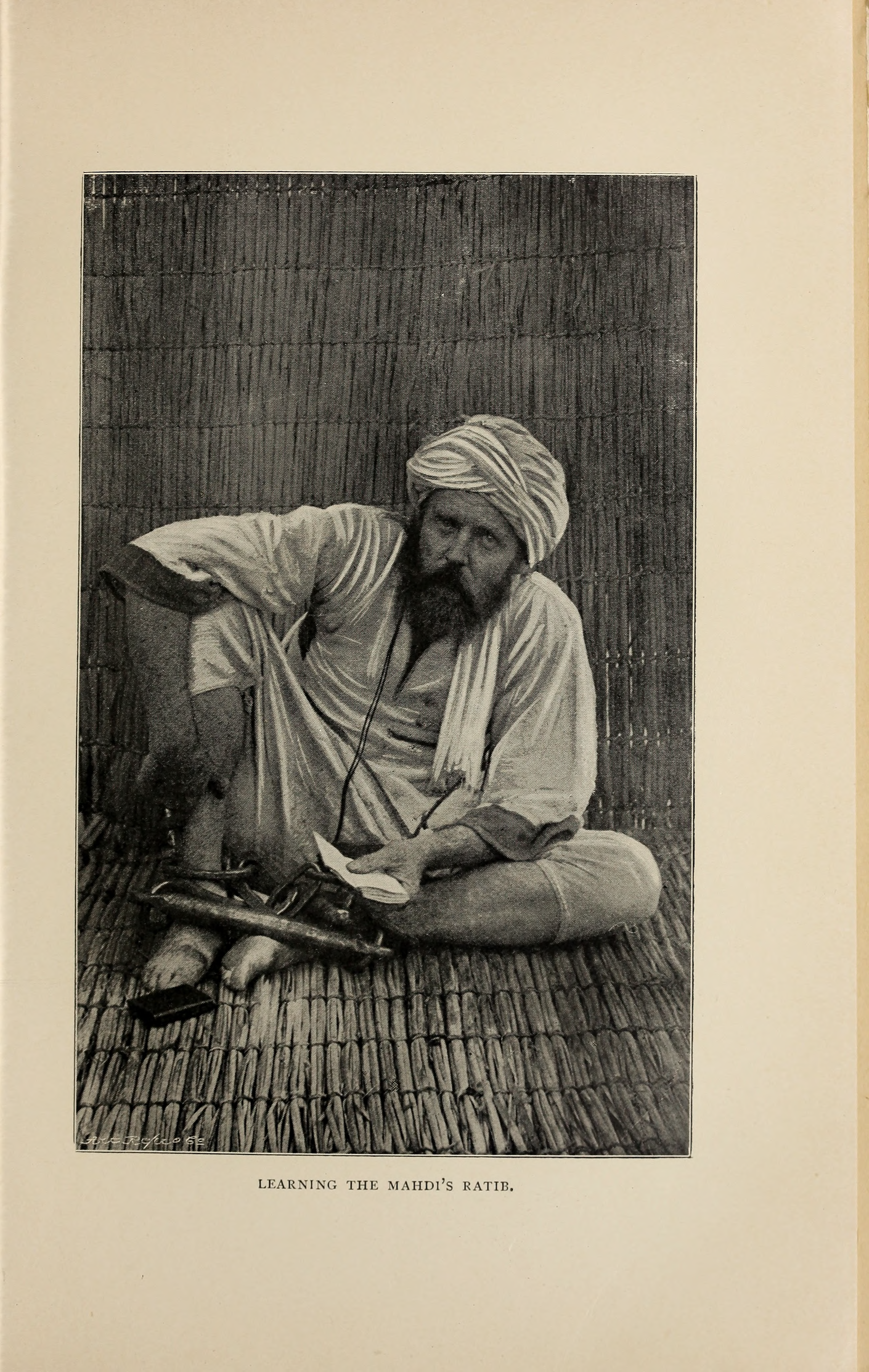 Learning the Mahdi's ratib